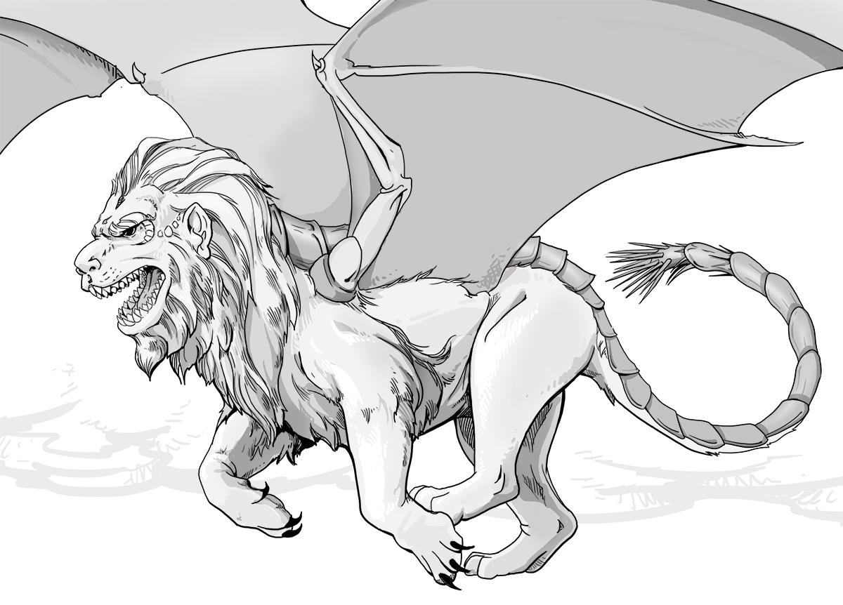 The manticore was one of the first monsters introduced in the earliest edition of the game, in the Dungeons & Dragons "white box" set (1974), where they were described as huge, lion-bodied monstrosities with a tail full of spikes that can be fired